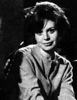 Italian actors Franco Scandurra and Valeria Sabel